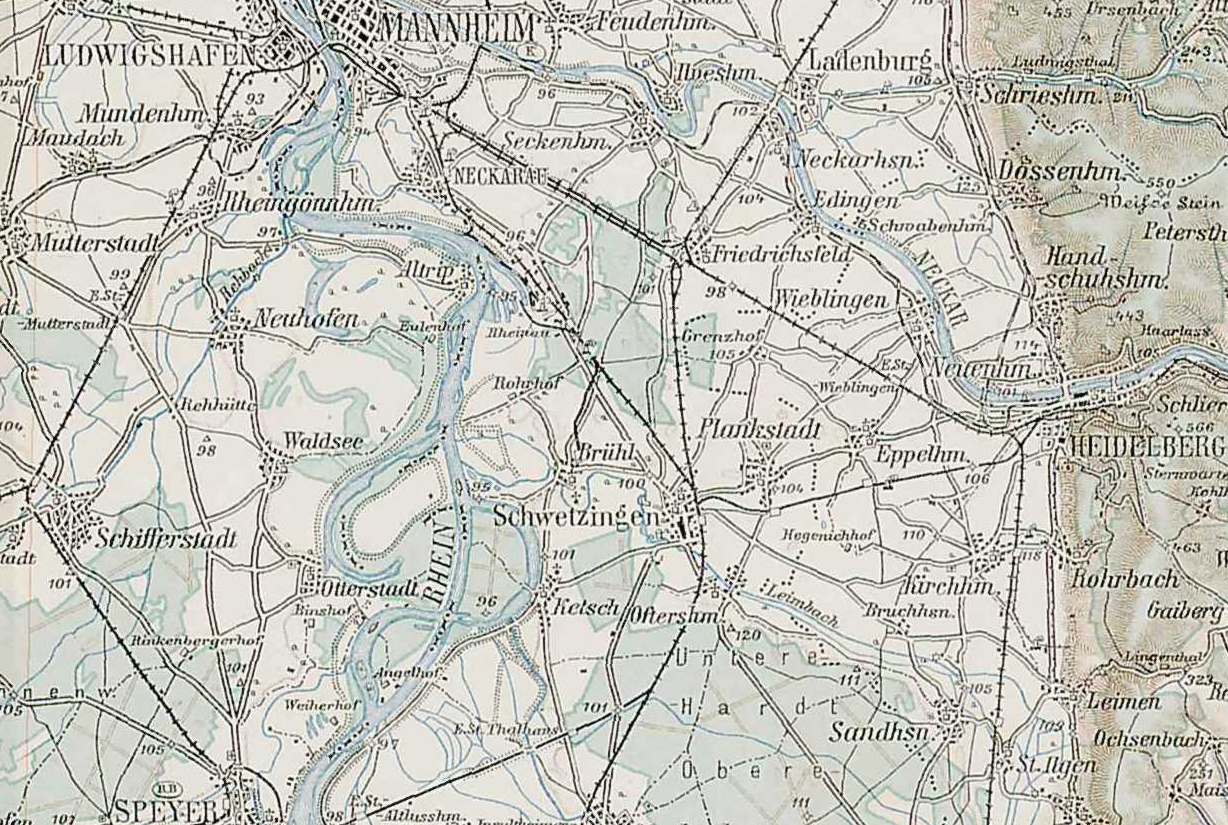 part of 3rd Military Mapping Survey of Austria-Hungary - Karlsruhe